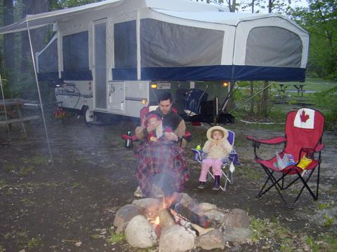 Photo of family tent-trailer camping at the KOA, Marmora, Ontario, Canada